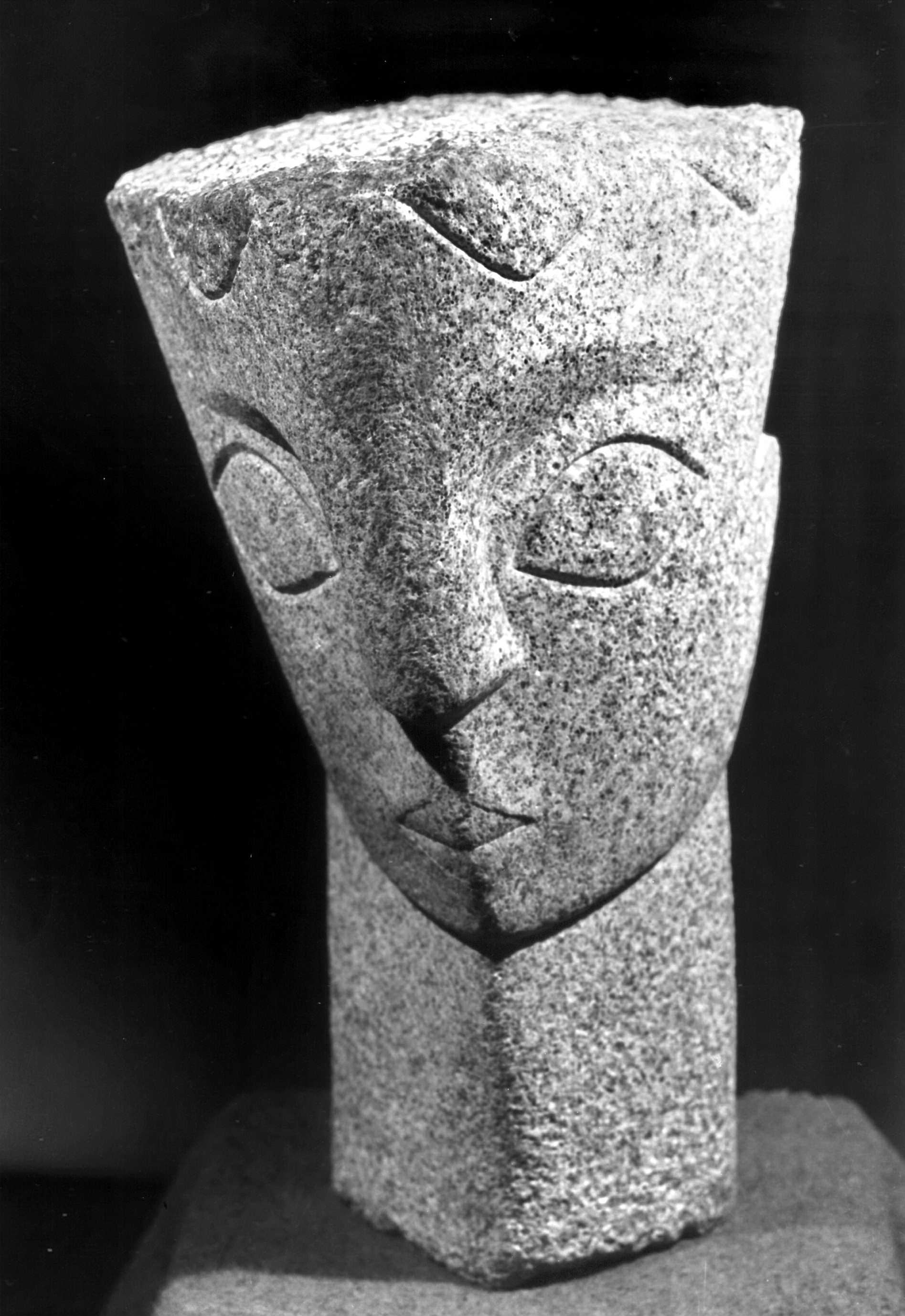 Achiam : Le Roi David (Granit)